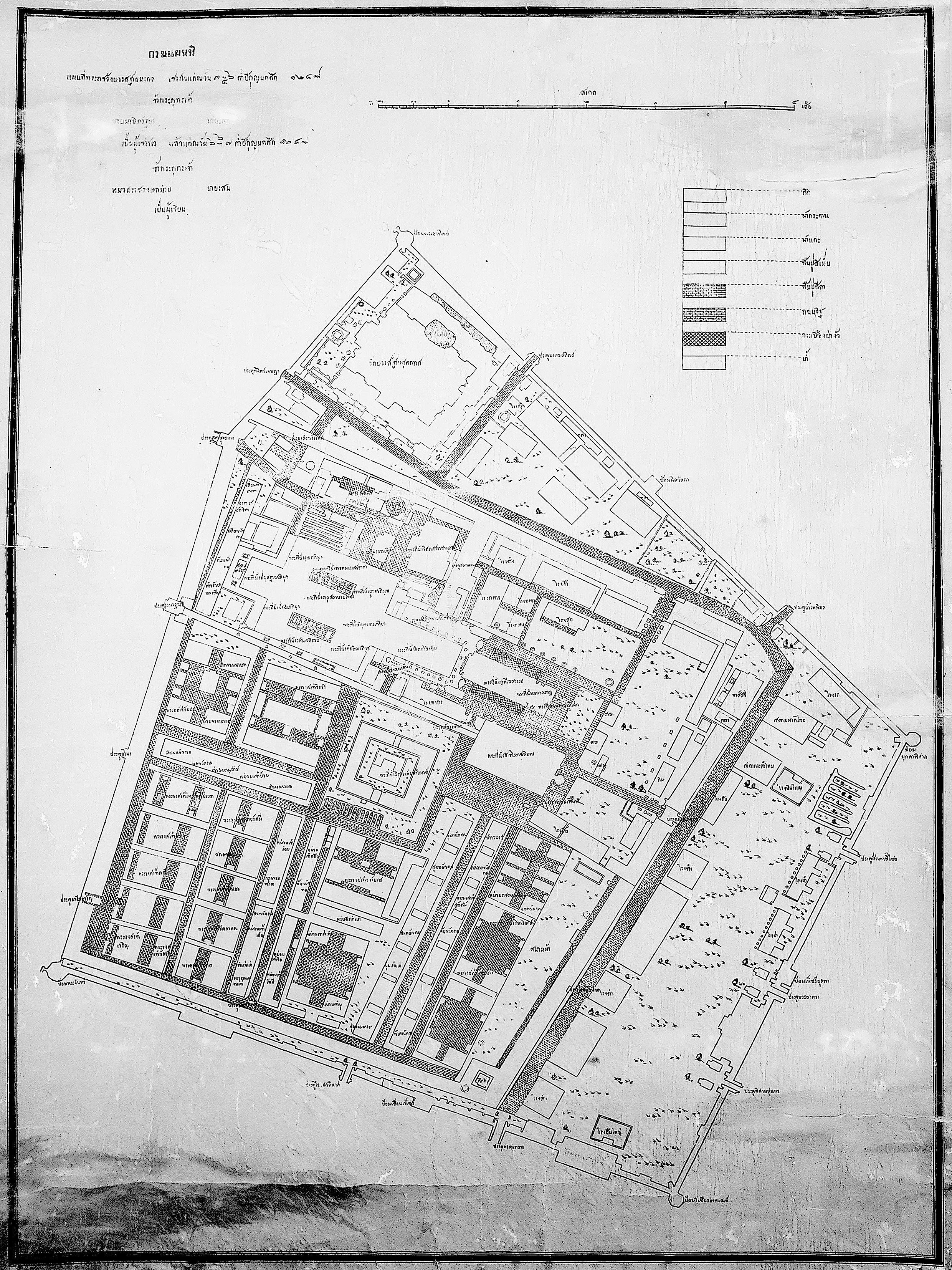 Map of the Front Palace, dated 1887